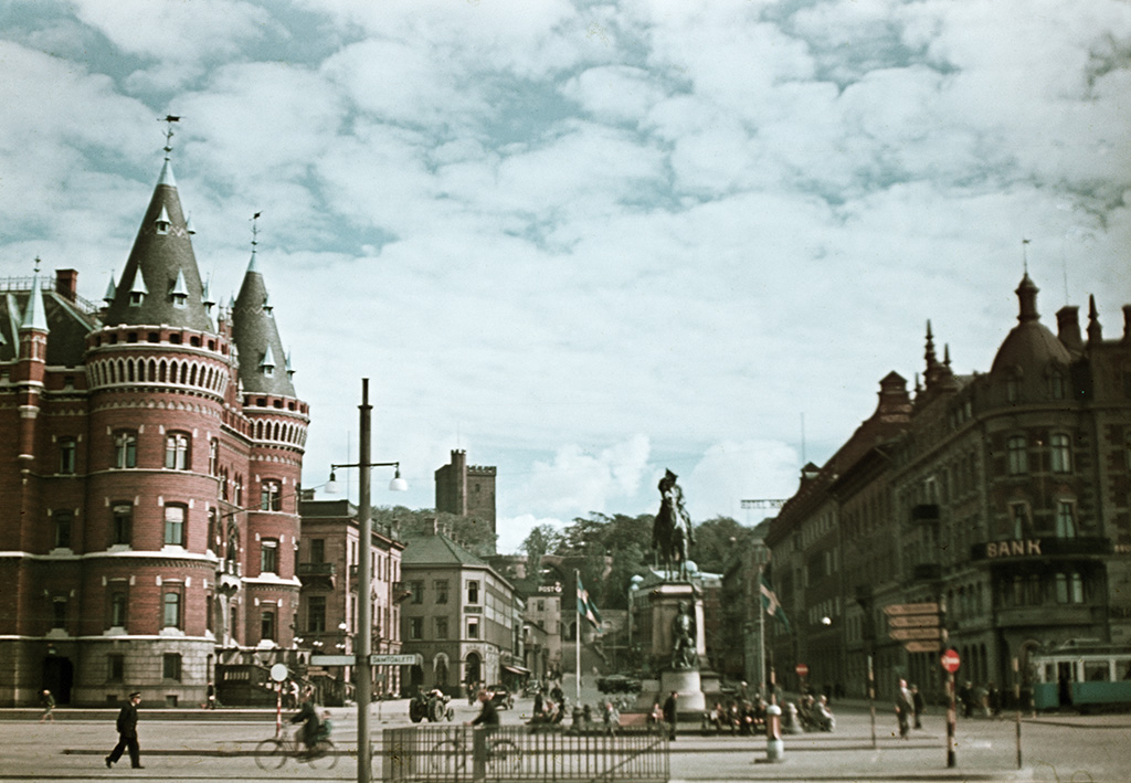 View towards the Main Square. In the background to the left is the medieval fortress tower Kärnan (the Core). Vy mot Stortorget. I bakgrunden till vänster är det medeltida fästningstornet Kärnan. Parish (socken): Helsingborg Province (landskap): Skåne Municipality (kommun): Helsingborg County (län): Skåne Photograph by: Fredrik Bruno Date: 1943 Format: Colour slide See a recent photo of the same view: Persistent URL: Read more about the photo database (in english)